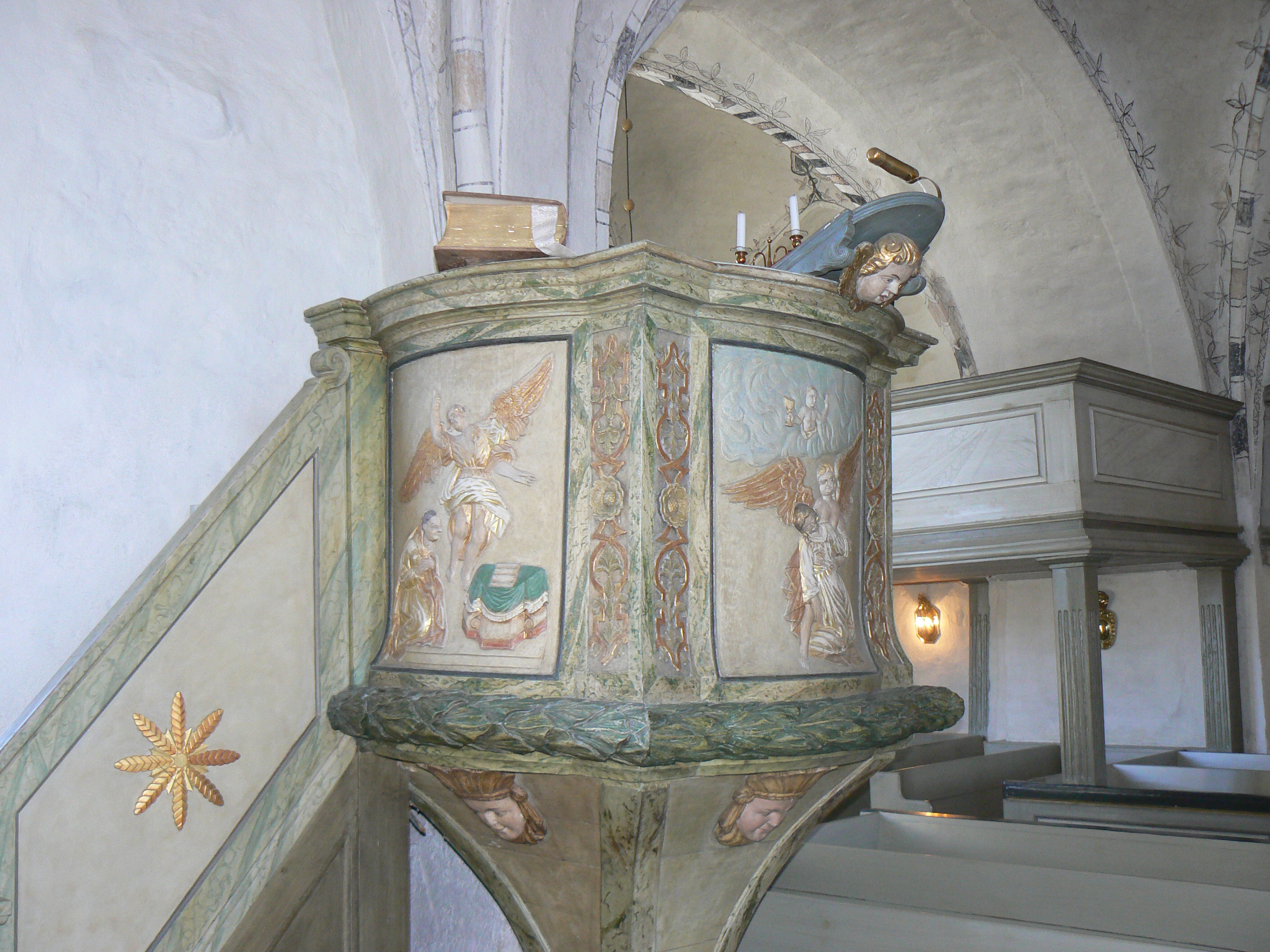 The pulpit of Örtomta church, Östergötland, Sweden.